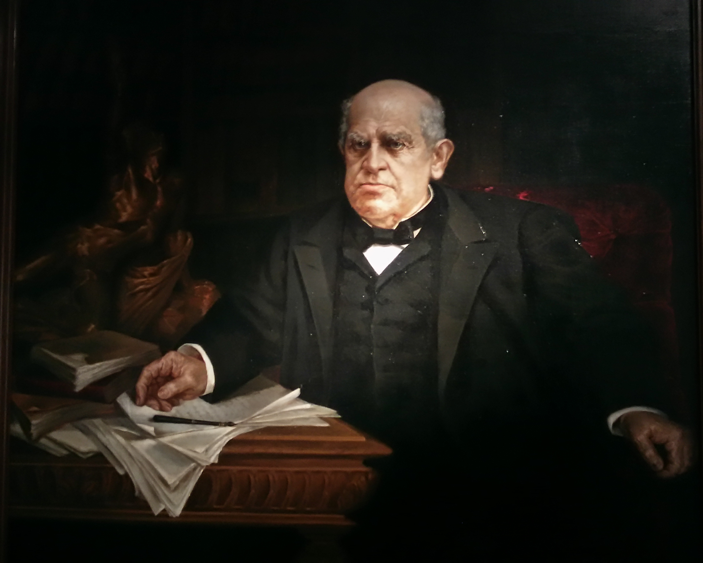 Portrait of Domingo Faustino Sarmiento inside Sarmiento Museum in the Belgrano neighbourhood, Buenos Aires. Painting by Eugenia Belín Sarmiento (c. 1900).